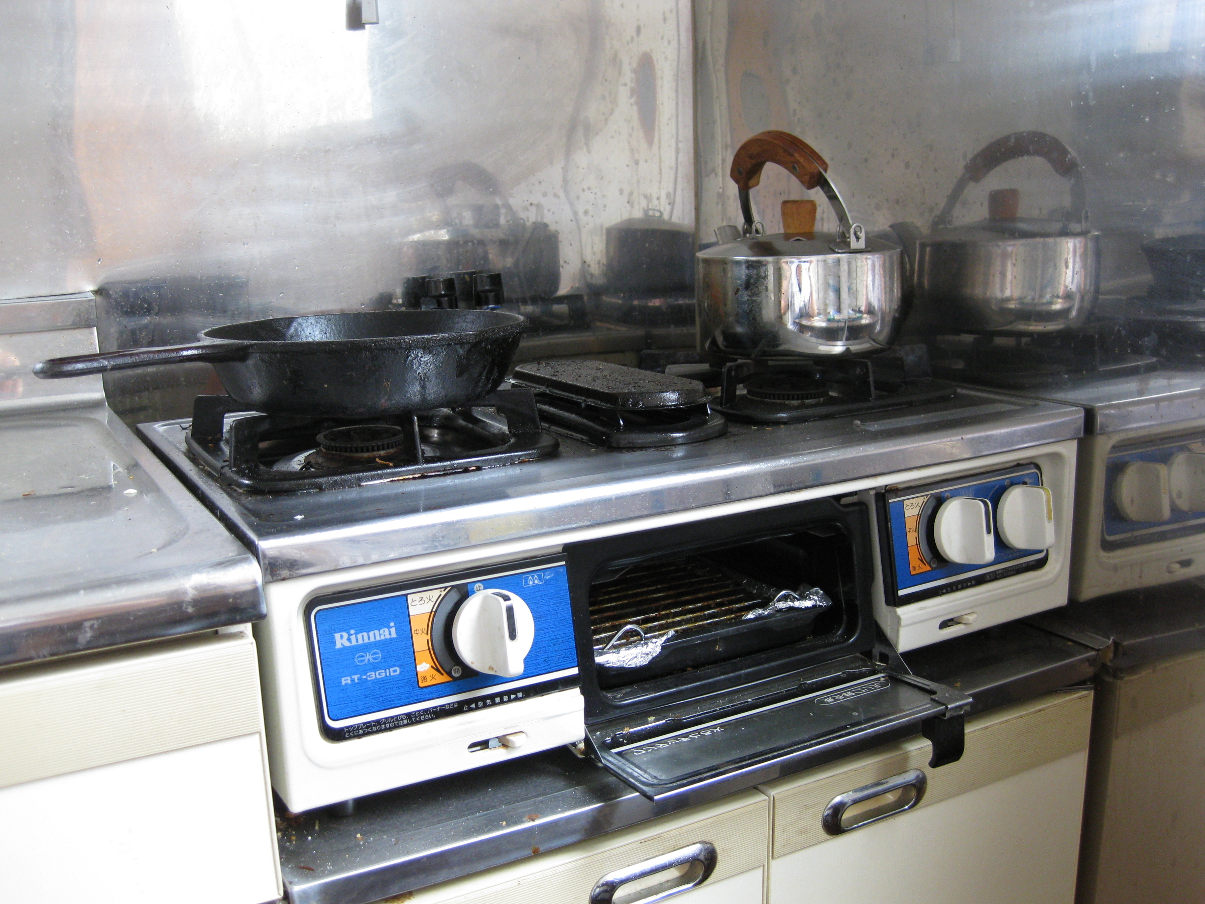 Rinnai standard 2-burner Japanese propane stove "RT-3GID" with fish oven. A cast iron frying pan and tea kettle are on top of the burners.